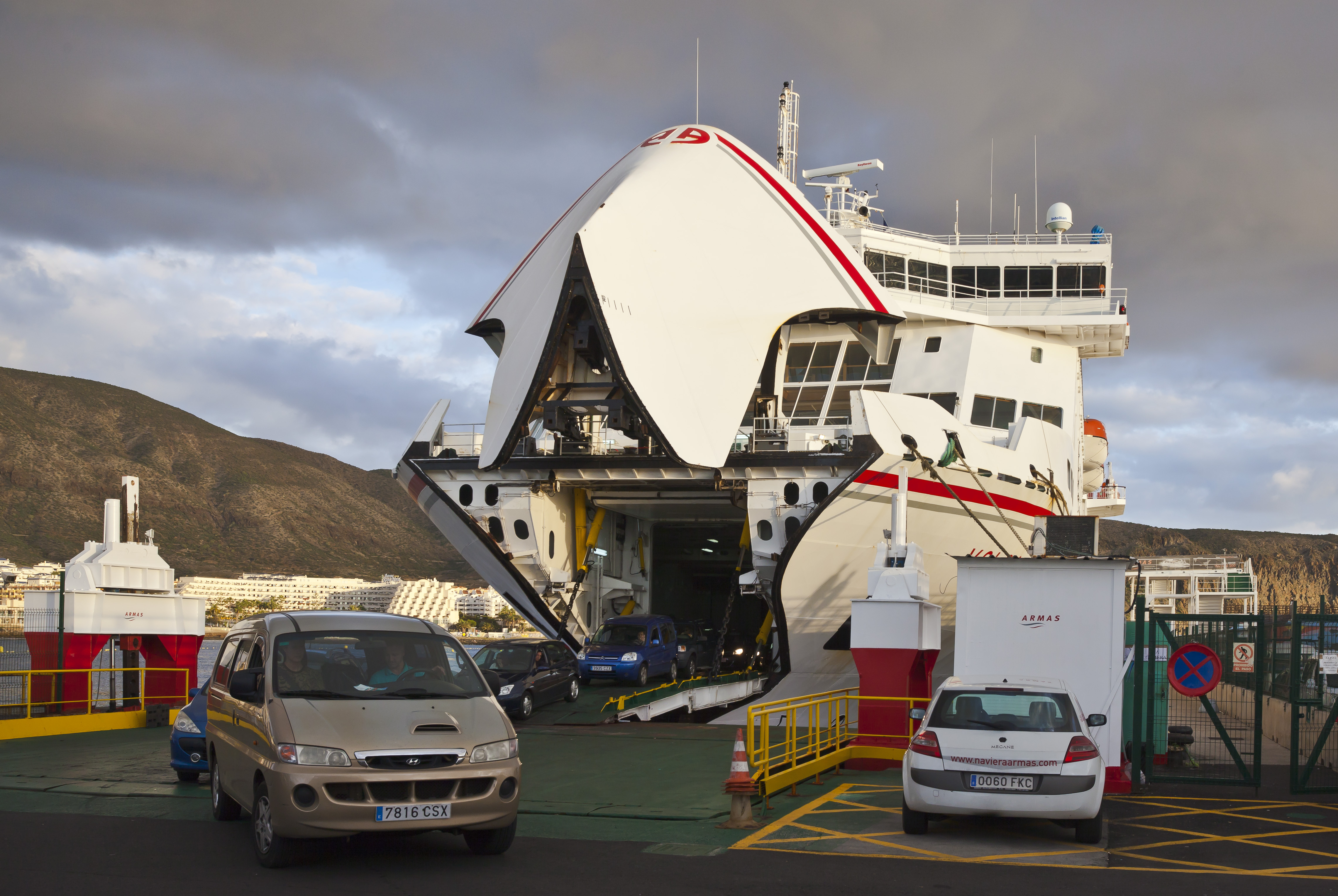 Port of Los Cristianos, Tenerife, Spain